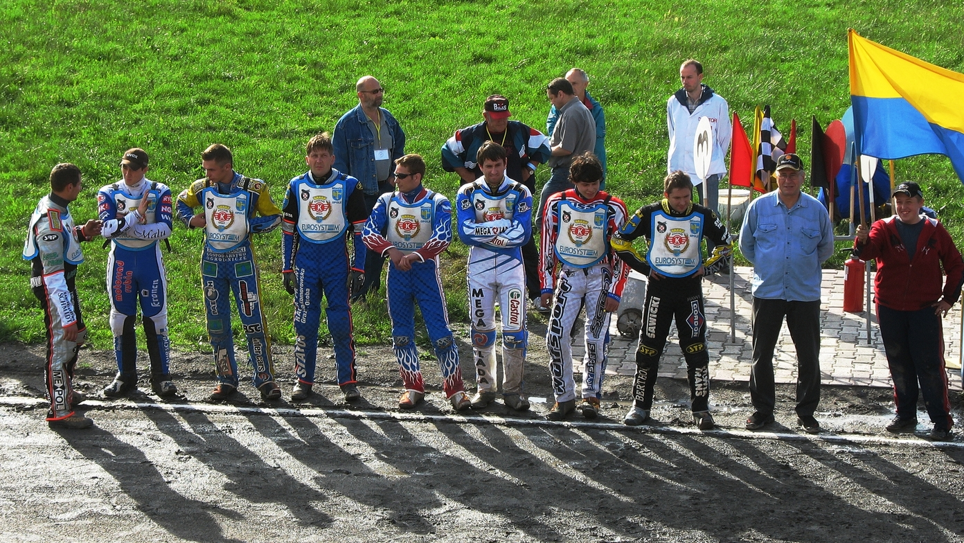 Riders of speedway team Kolejarz Opole